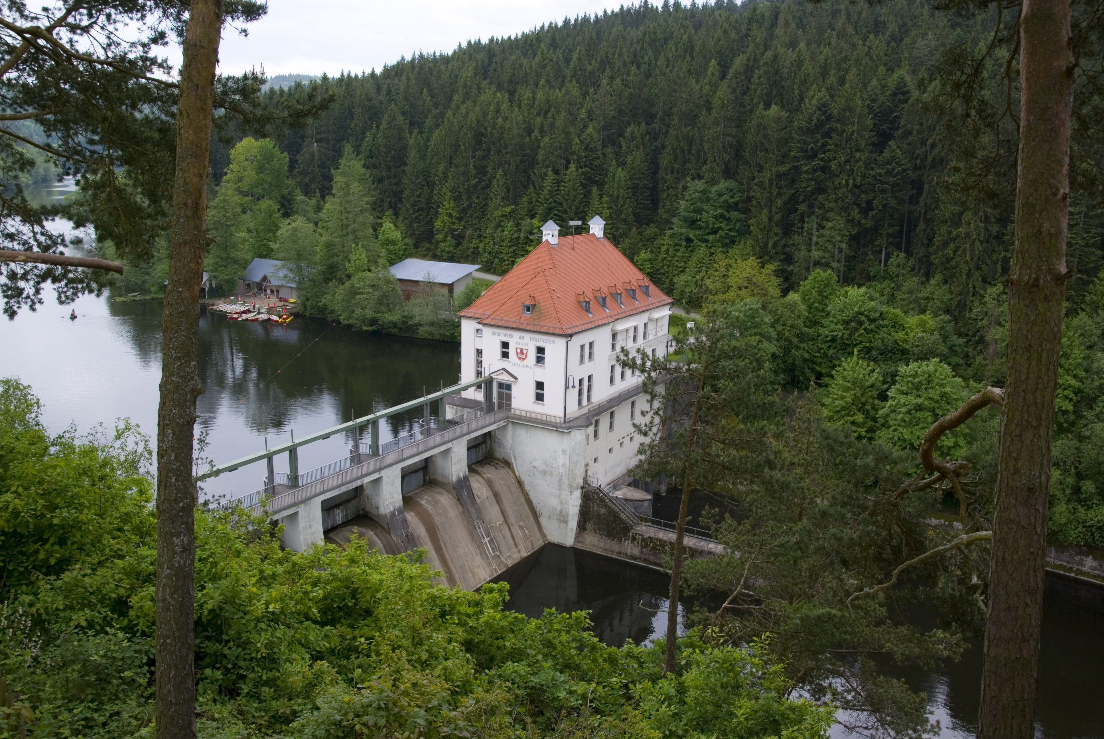 The Hoellensteinsee in Bavaria/Germany